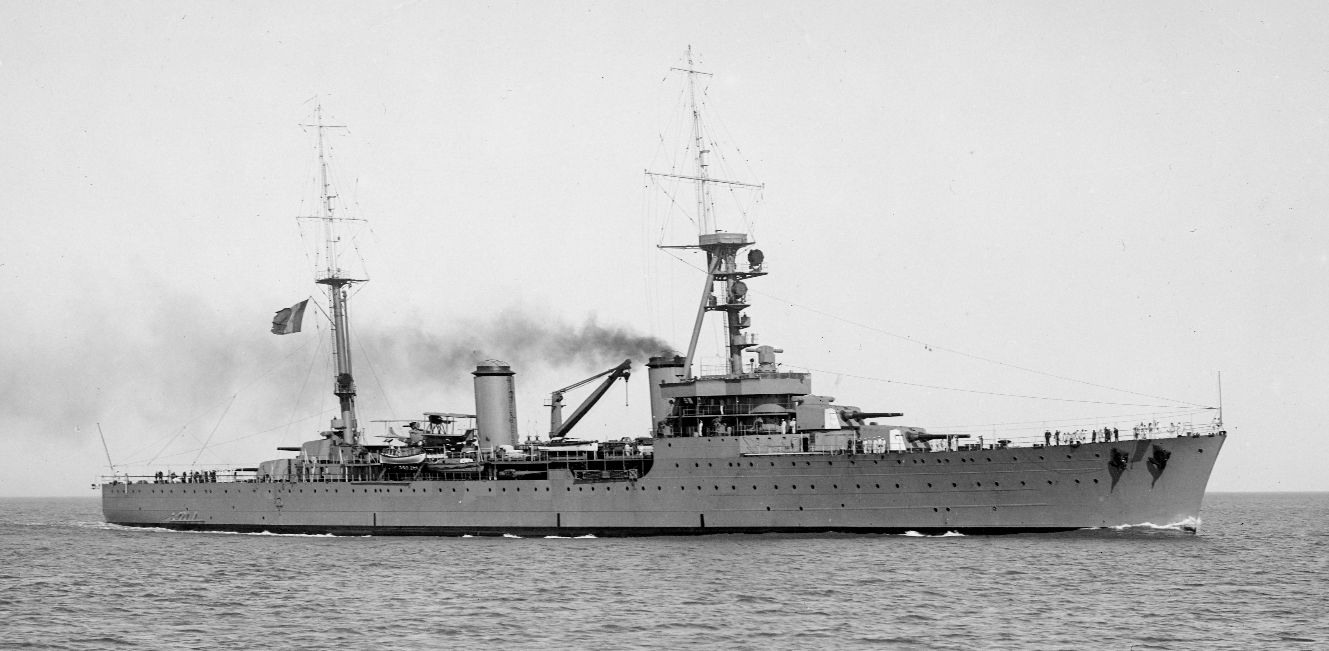 Tourville